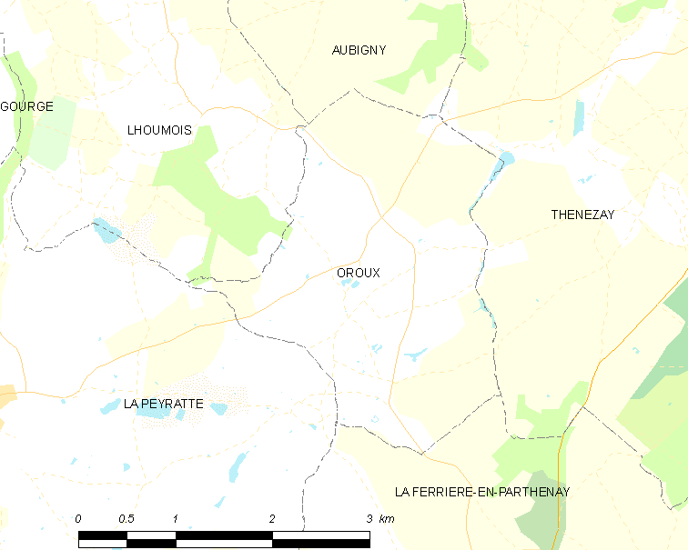 Map of French municipality Oroux